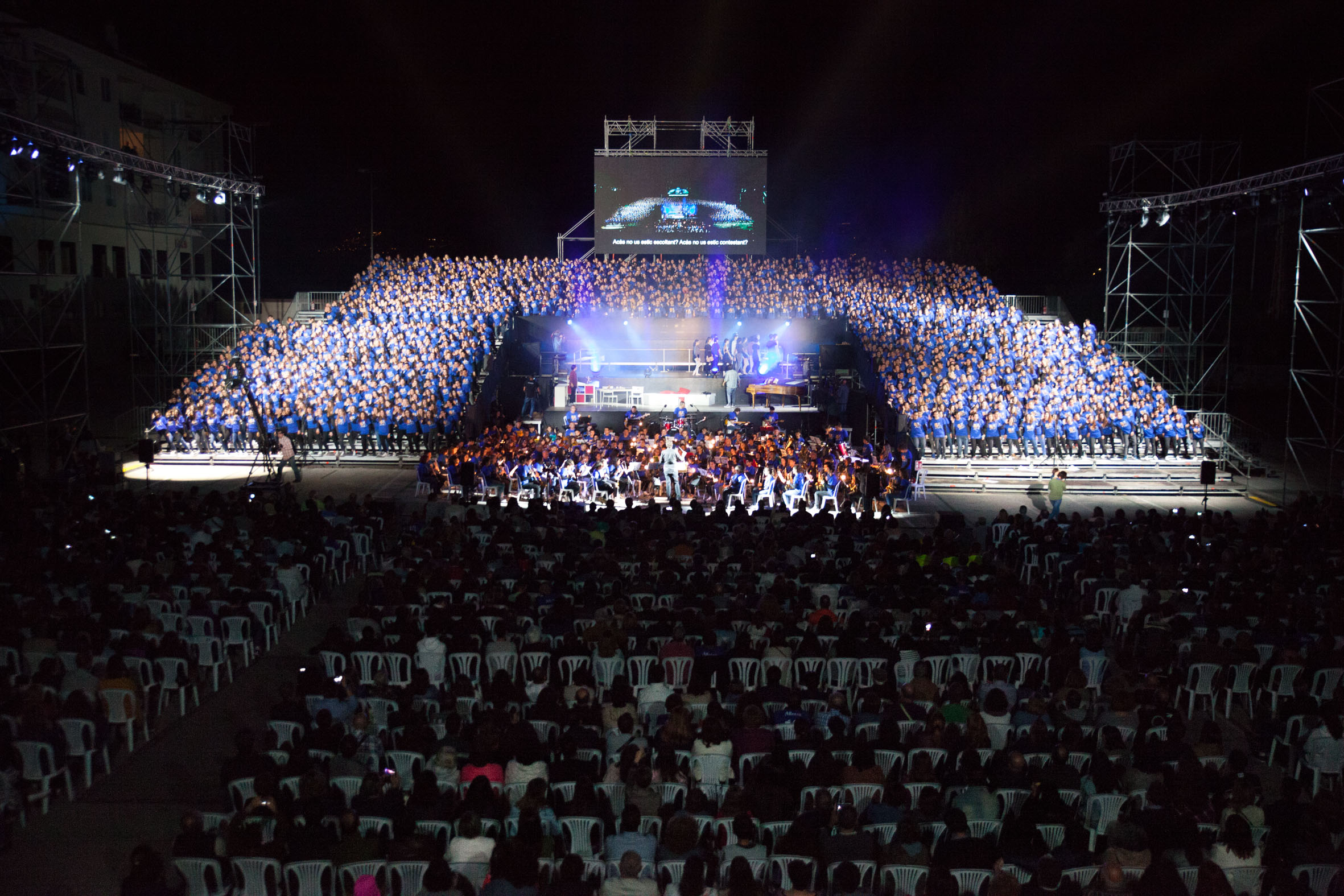 Com sona l'eso Altea 2017